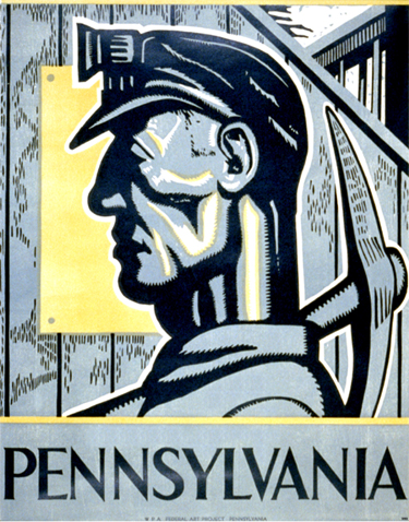 WPA poster USA. "Pennsylvania", image of a miner.